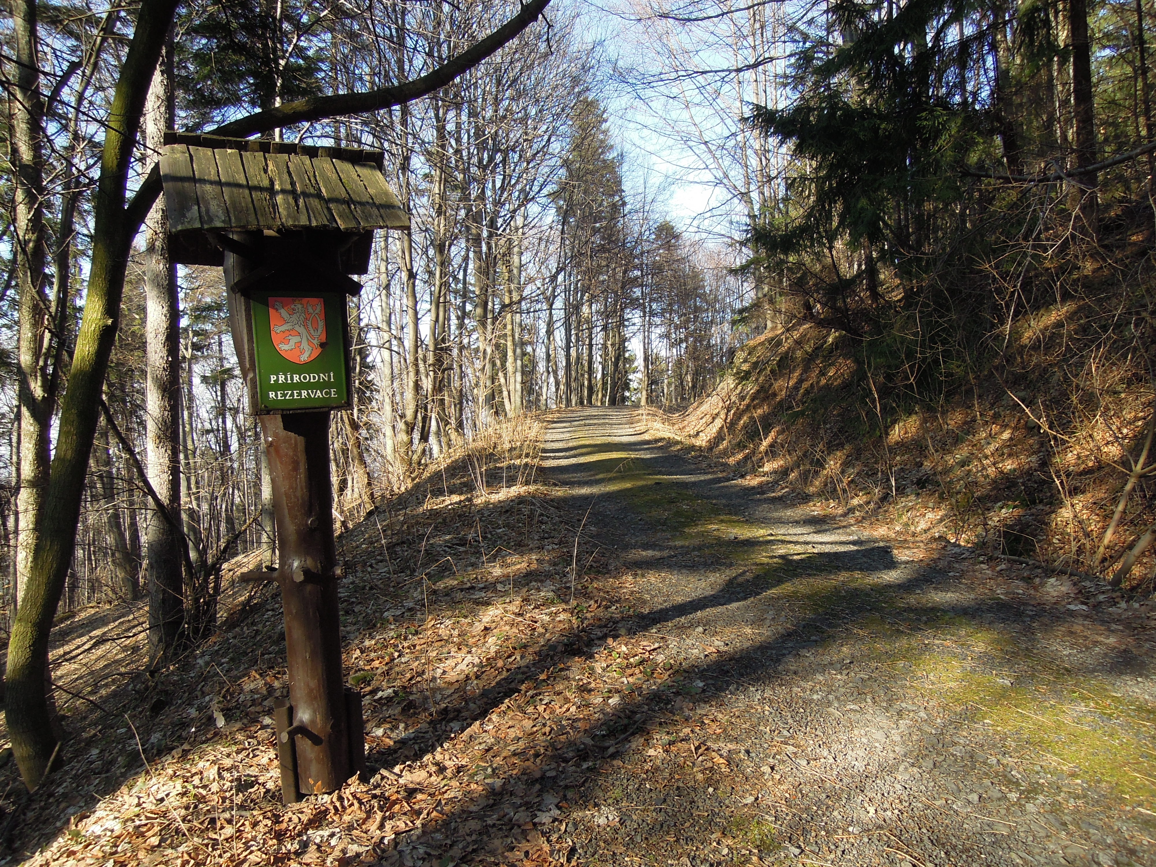 Trojačka nature reserve, Nový Jičín District, Moravian–Silesian Region, Czech Republic